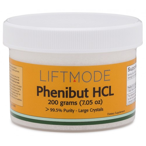 phenibut formula